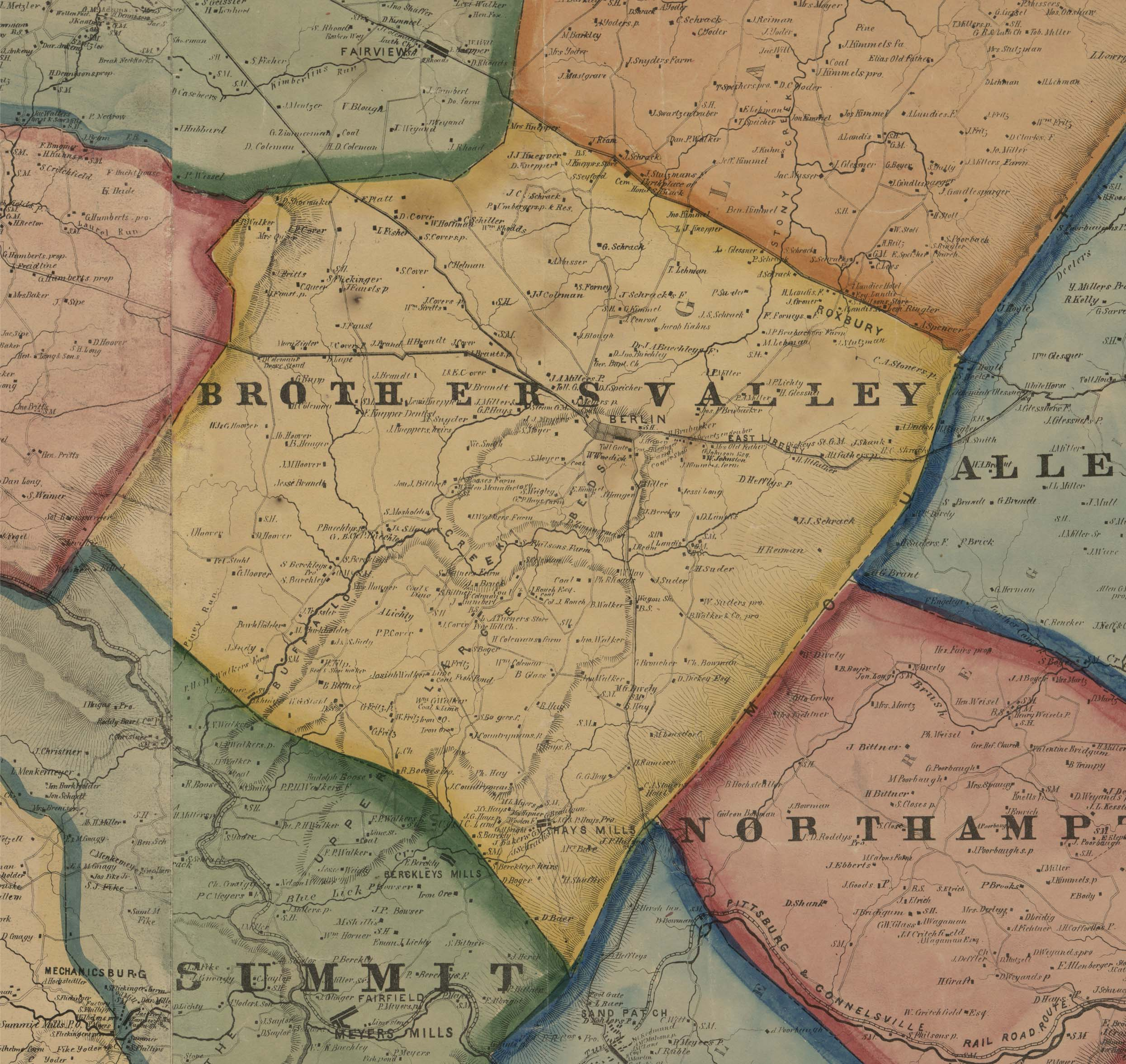 Map of Brothersvalley Township taken from 1860 Edward L. Walker map of Somerset County, Pennsylvania, available at the Library of Congress website